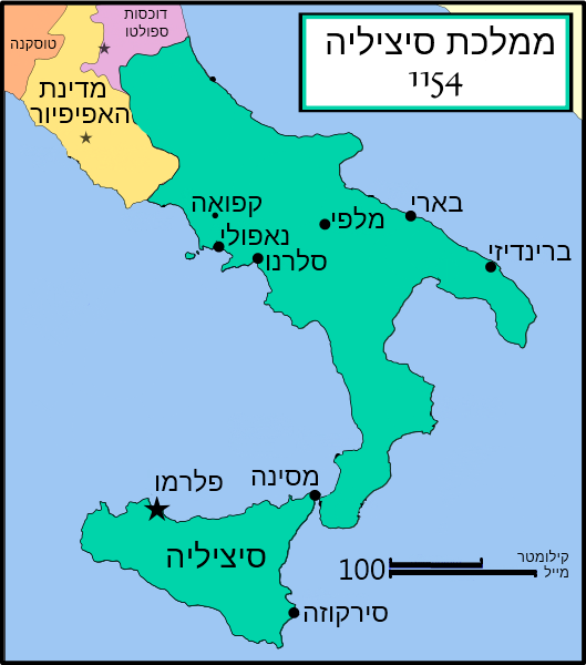 hebrew vertion of file Kingdom of Sicily 1154.svg